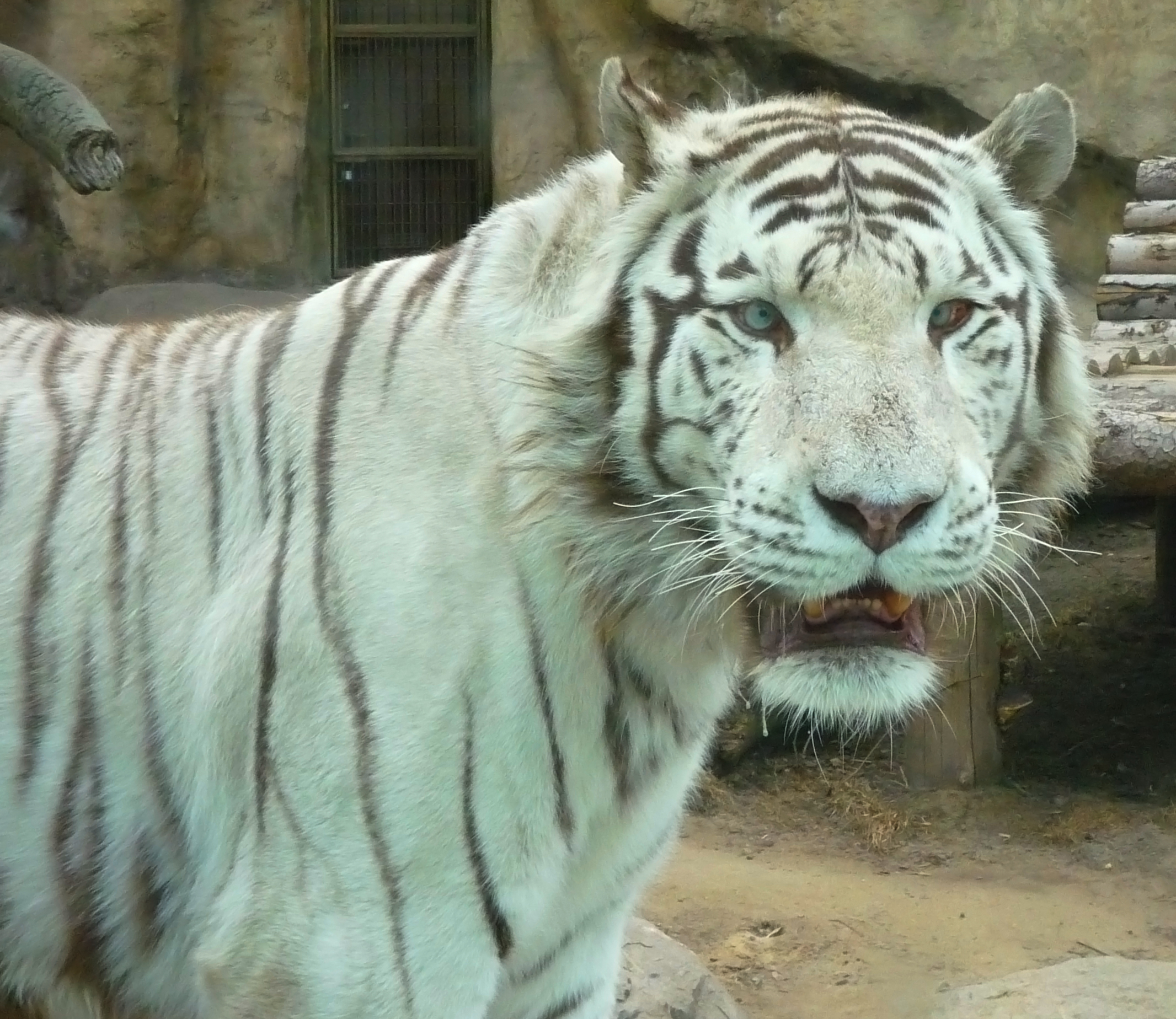 White bengal tiger (Panthera tigris bengalensis) in Moscow zoo.